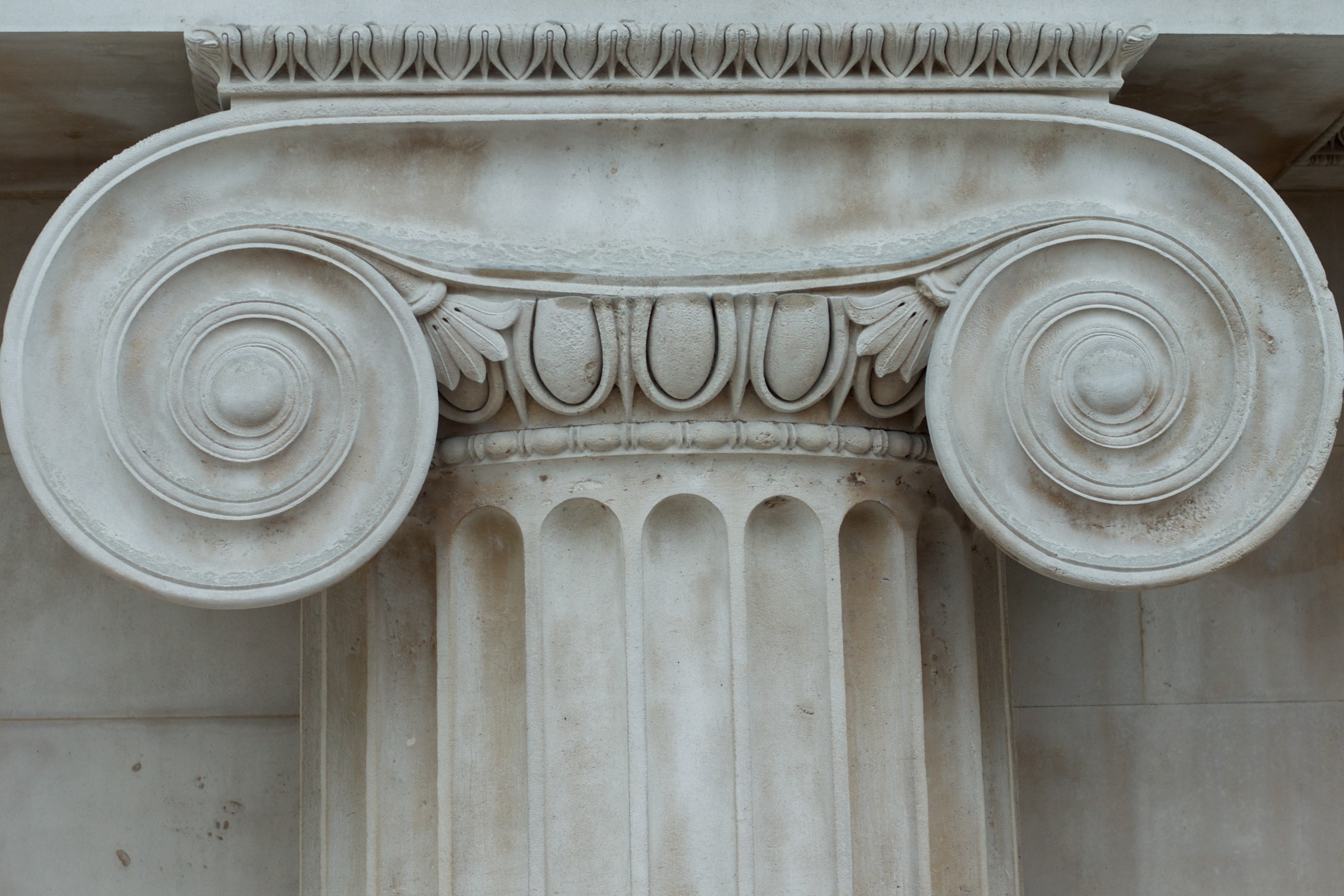 London Barking